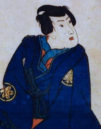 Uzaemon Ichimura XI as Ōe Inaba-no-suke Hirotsugu, in the February 1835 Edo Ichimura-za production of Ume-no Haru Gojyū-san-tsugi, painted by Ichiyūsai Kuniyoshi. A collection of Waseda Theatre Museum.